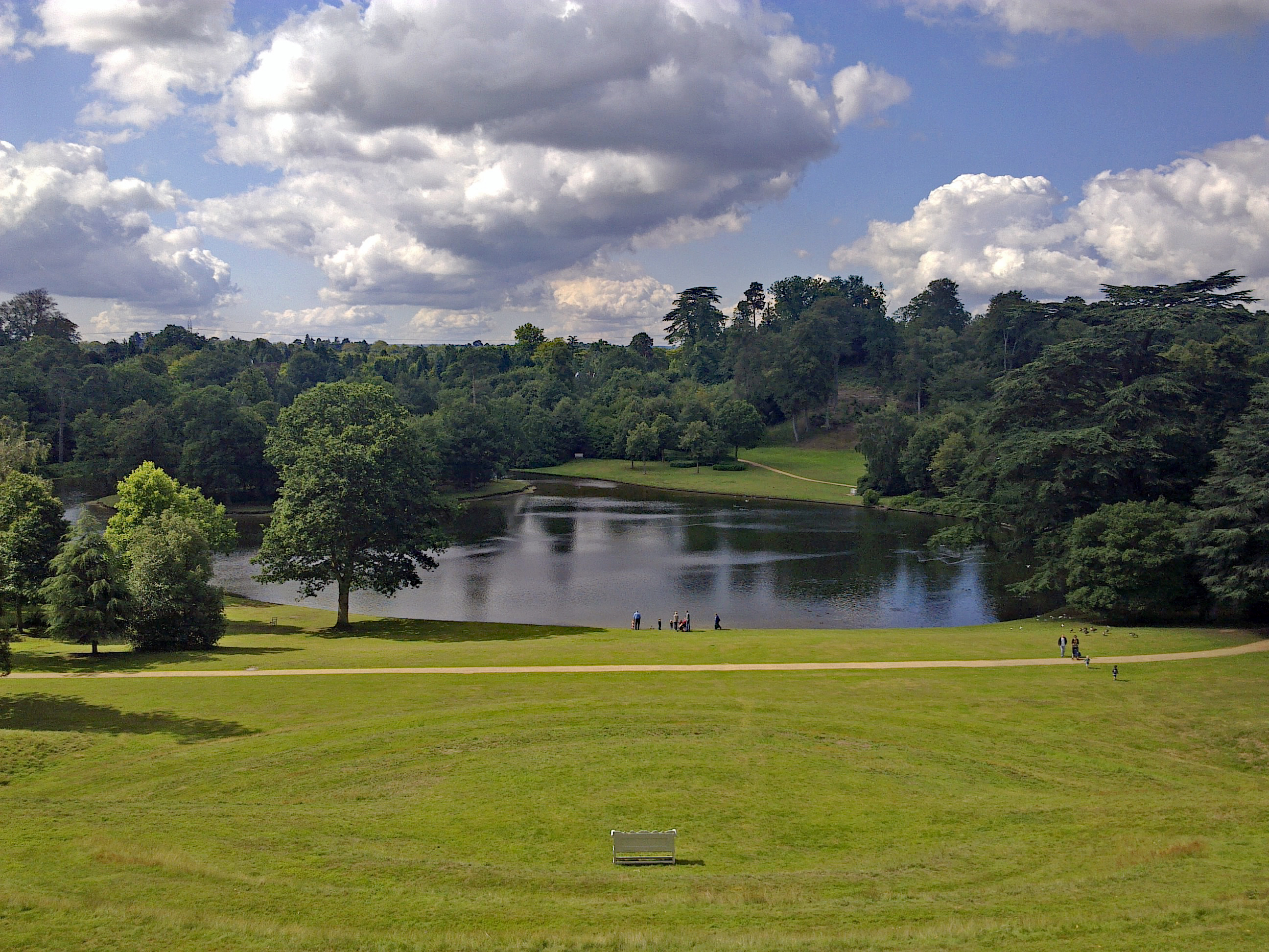 Claremont Landscape Garden lake taken from top of amphitheatre)